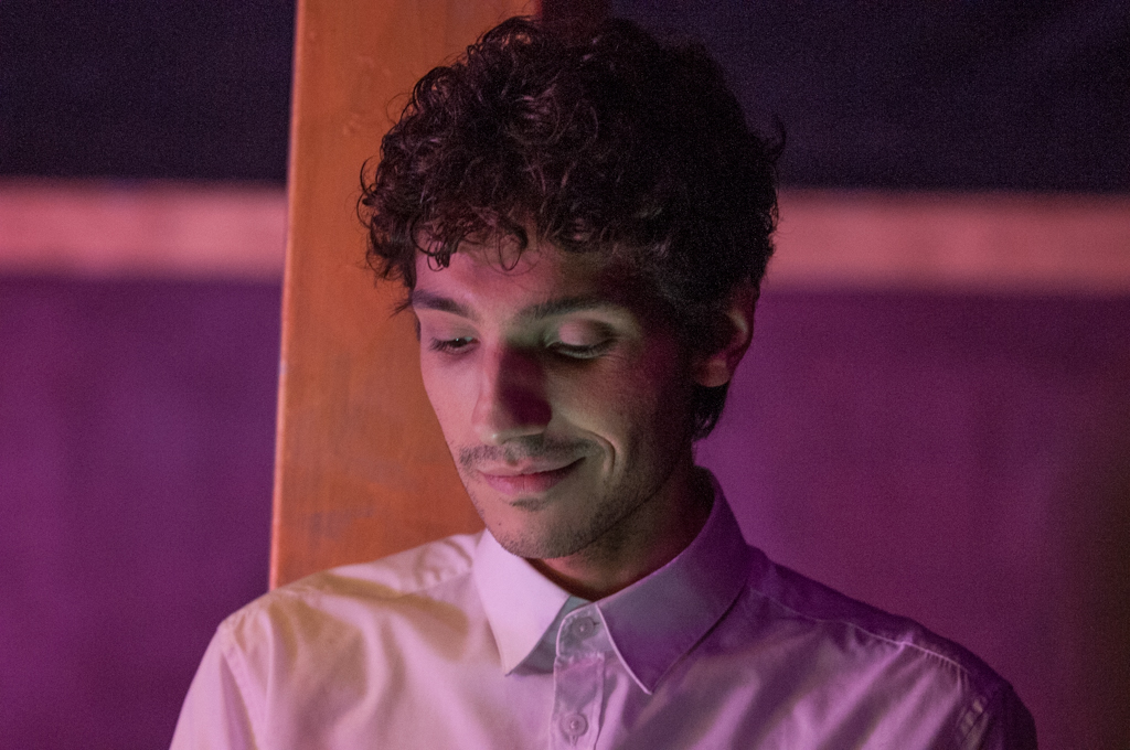 Italian actor Tommaso Lazotti. Photo from "La notte è piccola per noi"